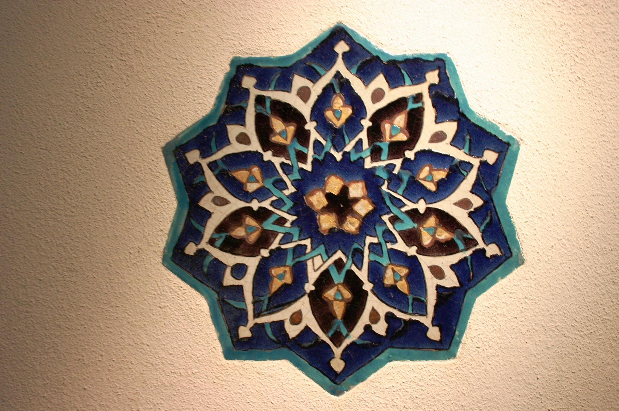 Tile of the Timurid dynasty